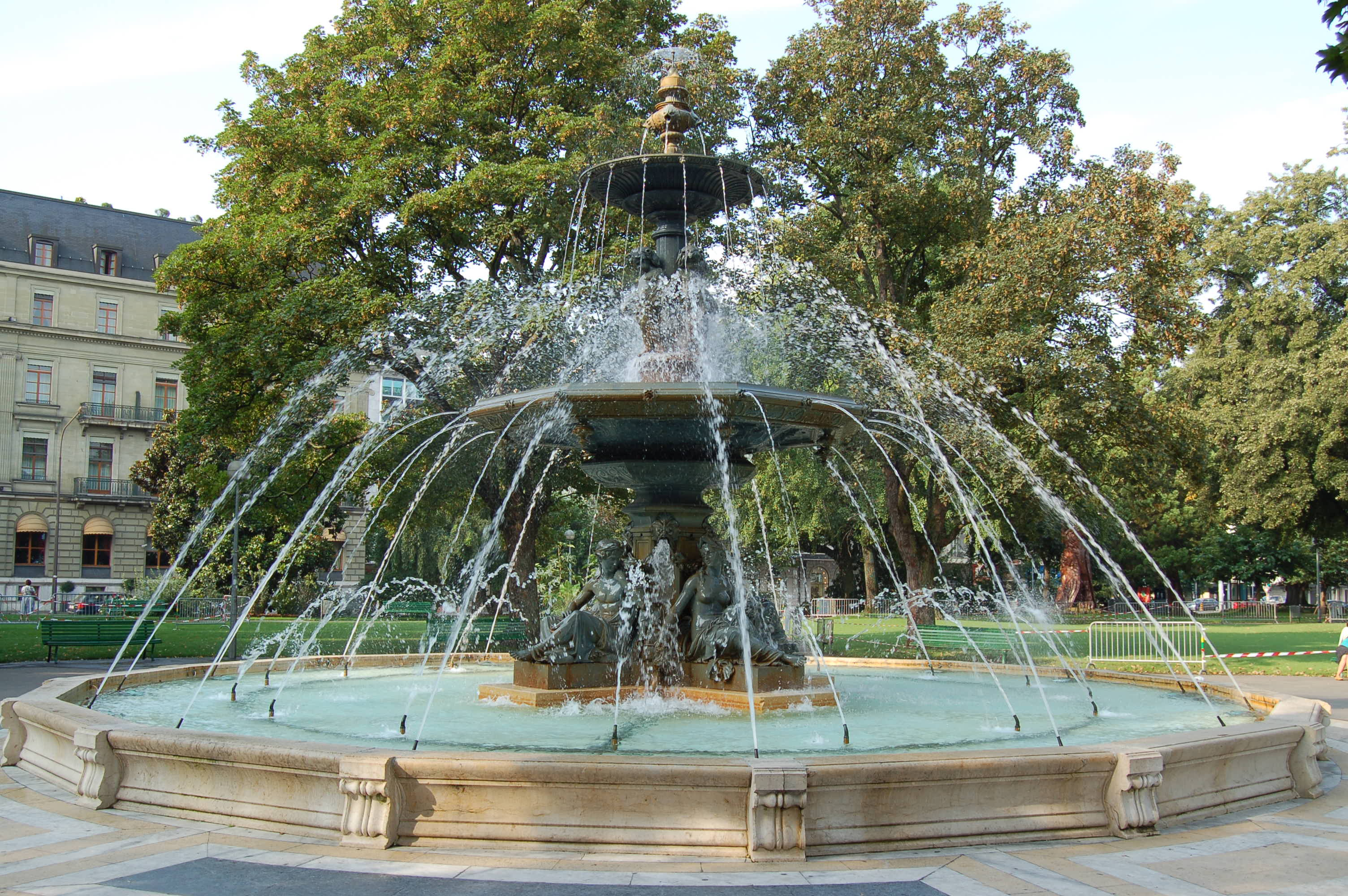 Geneva